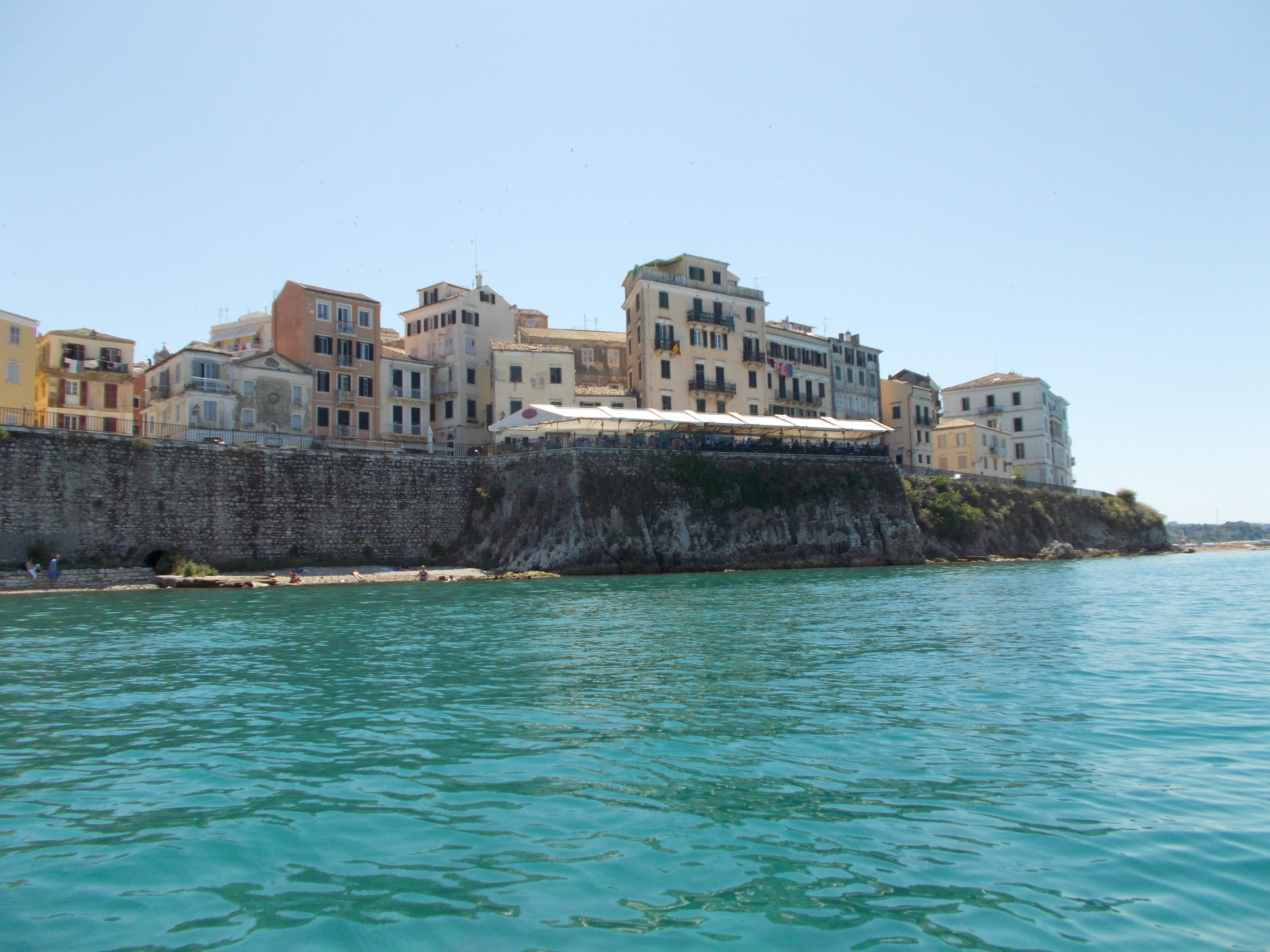 Corfu city from the sea